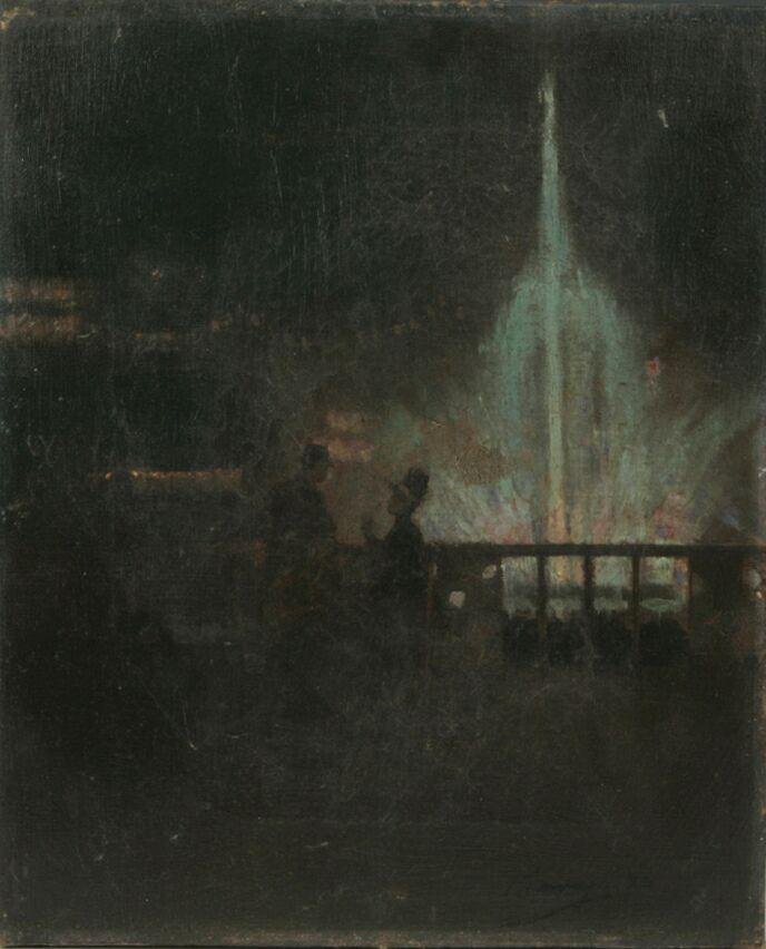 The Fairy Fountain, Glasgow International Exhibition, 1888. Signed and dated 88, oil on canvas, 31 x 26 cm